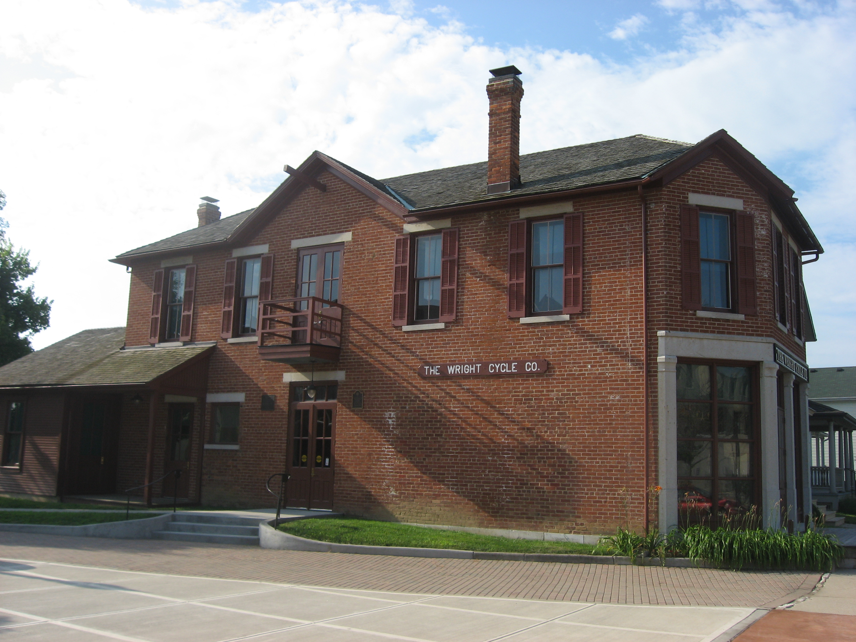 The Wright Cycle Company offices at 22 S. Williams Street in western Dayton, Ohio, United States. Constructed in 1886, the building was rented by the Wright brothers from 1895 to 1897, one of five locations where they operated their business at different times. It has been designated a National Historic Landmark, and is part of the Dayton Aviation Heritage National Historical Park.(Building was not owned by the Wright Brothers, nor built in 1895, as incorrectly stated in the File History 'comment' below.)